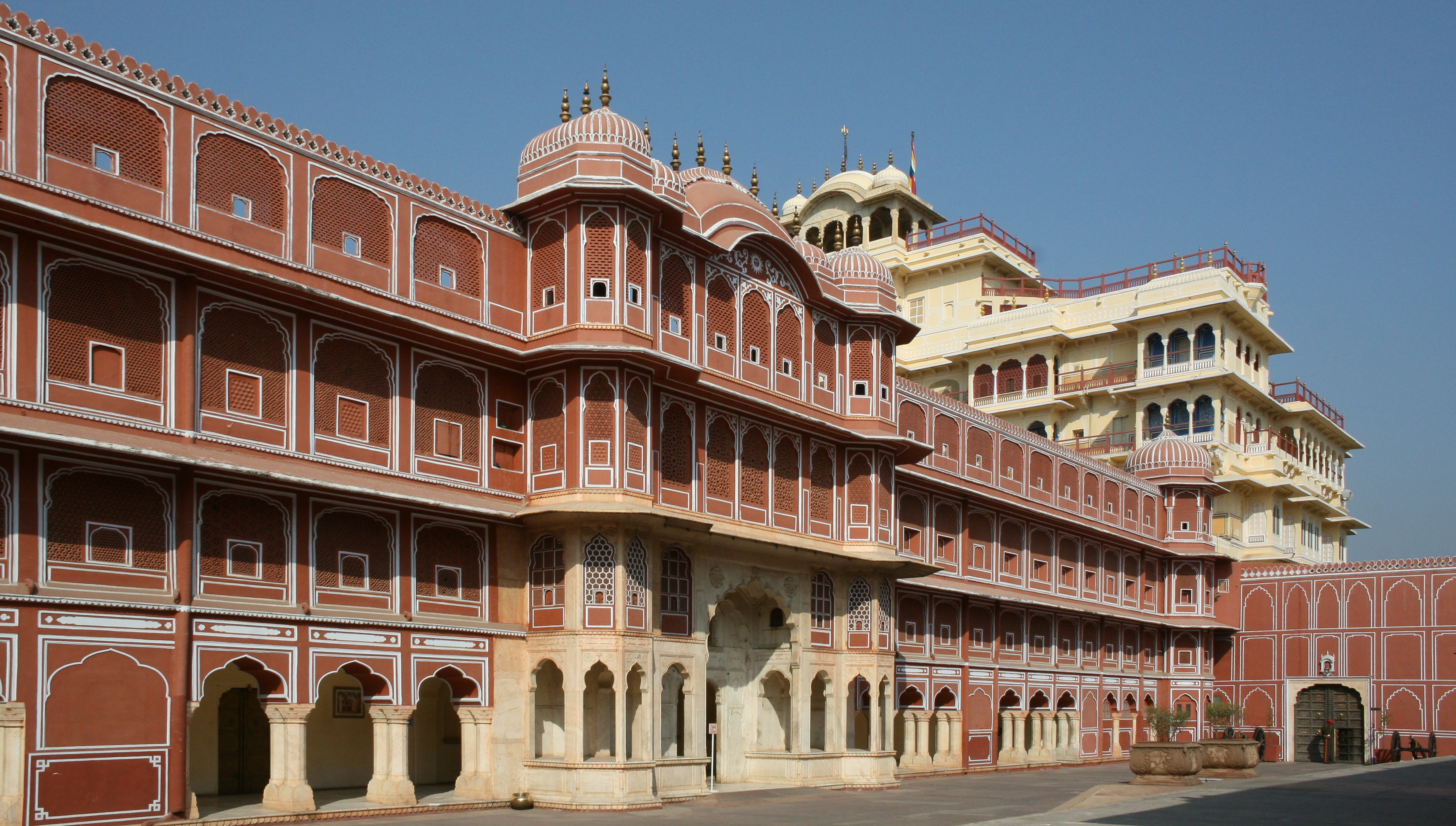 City Palace, Jaipur, India